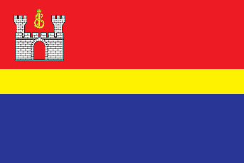 Modern (2006) flag of Kaliningrad Oblast